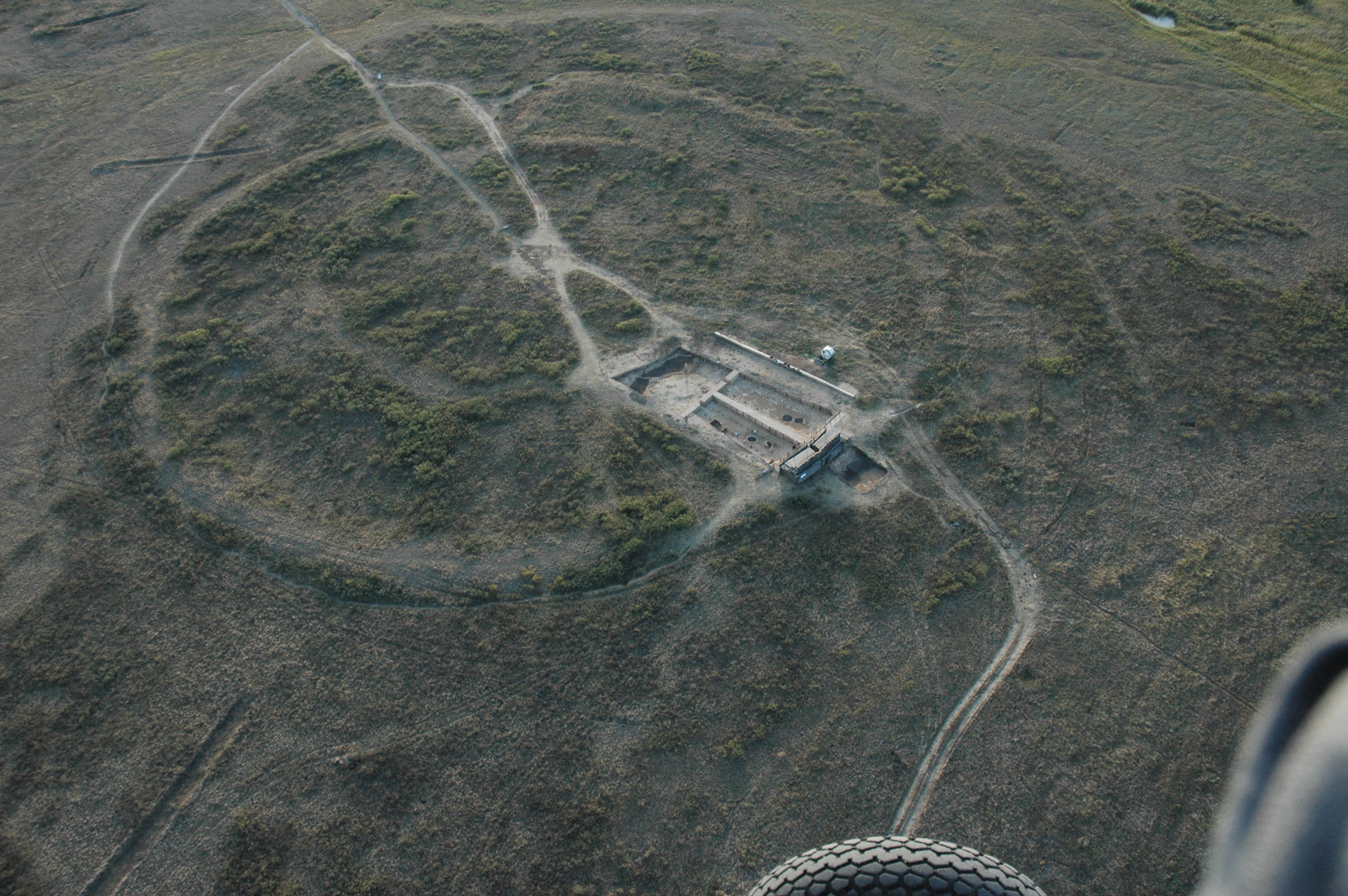 Aerial view of the archaeological site of Arkaim, in the steppe of the Southern Ural, 8.2 km (5.10 mi) north-to-northwest of the village of Amursky and 2.3 km (1.43 mi) south-to-southeast of the village of Alexandrovsky in the Chelyabinsk Oblast of Russia, just north of the border with Kazakhstan. The ruins, discovered in 1987, have been dated around XVIIth-XVIth centuries B.C. and have been connected to the Sintachta culture. They are the remnants of an ancient fortified city of round shape, with two concentric circles of walls sheltering around sixty houses and workshops.